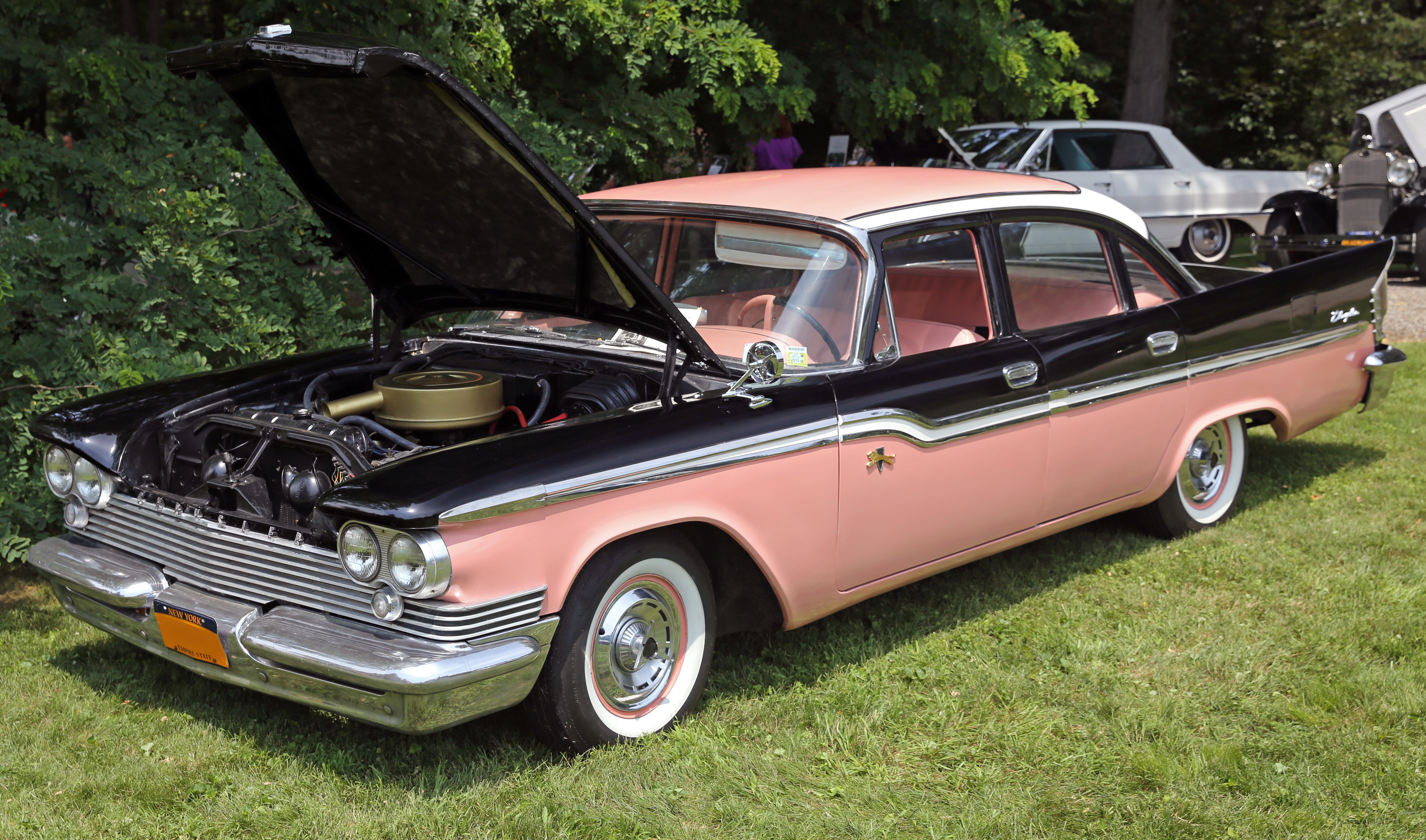 1959 Chrysler Windsor four-door sedan (body style no 513, the most common with 19,910 built). 383ci B-series V8 engine with 305hp - this was the first year for the B-series. The Windsor sits on the shorter wheelbase used on Dodges (122 vs 126 inches) rather than on the "proper" Chrysler chassis. Optional was the "outlined roof" treatment painted the same color as the side sweep insert. The tri-colour theme is carried through right through the wheels and tires, amazing! This model year's marketing theme was "Golden Lion", hence the badge on the front doors.